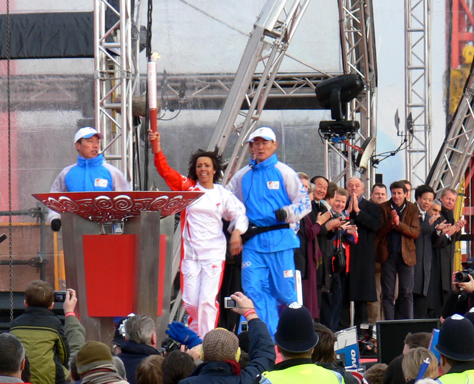 Arrival of the 2008 Olympic Torch in London (O2 Arena). Former London Mayor Ken Livingstone in the background.